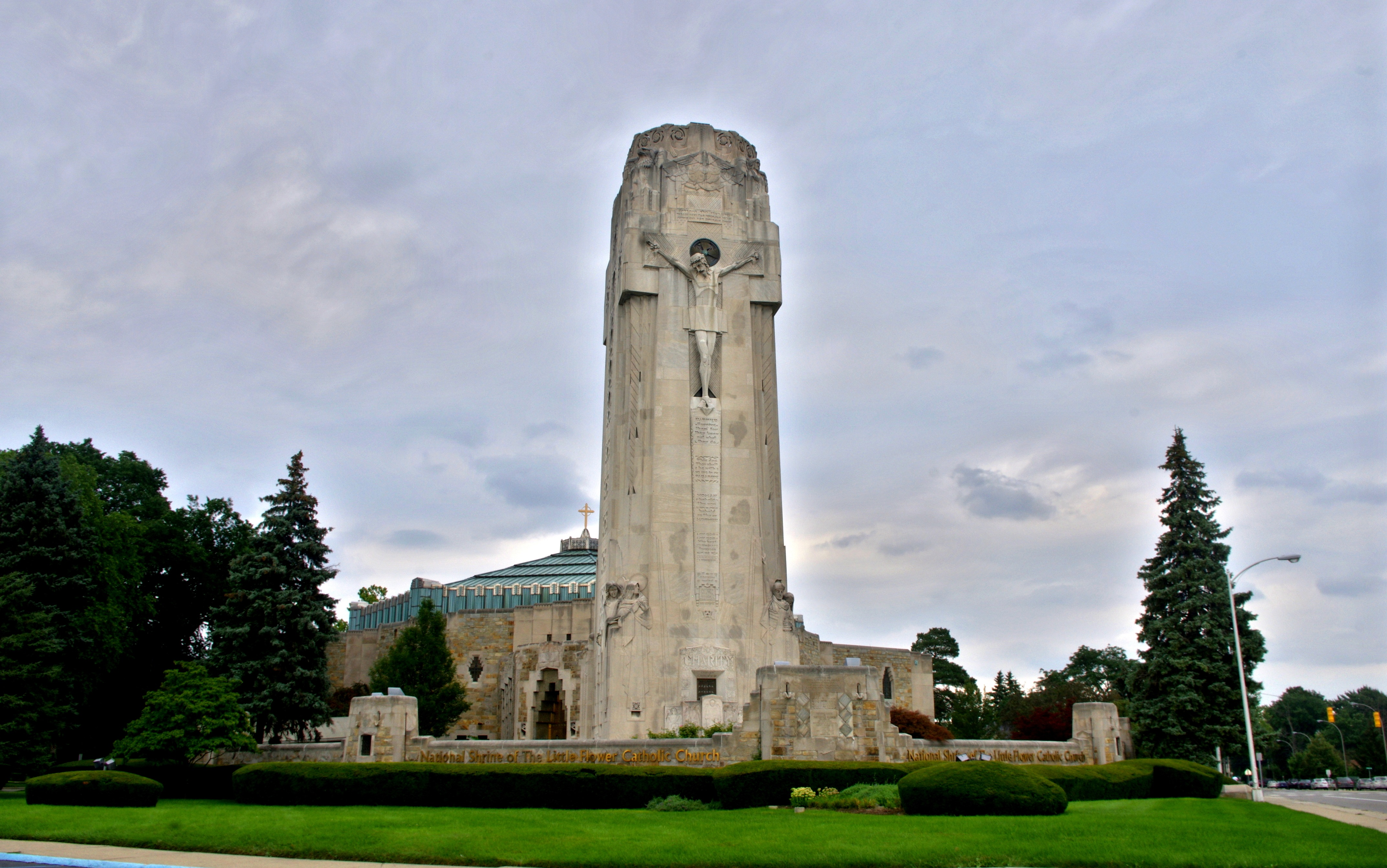 National Shrine of the Little Flower Roman Catholic Church (Royal Oak, Michigan) - exterior